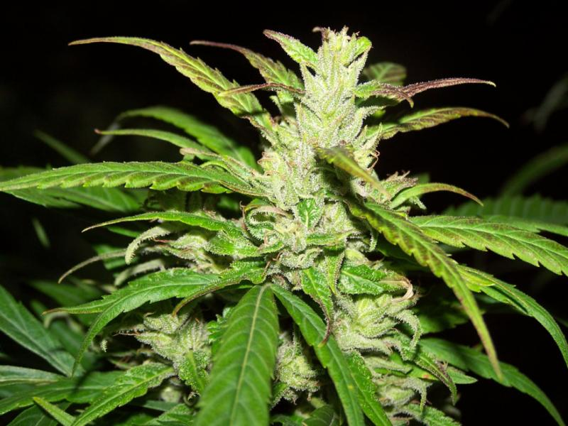 A cannabis plant in it's flowering phase